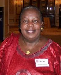 Gertrude Mongella when she was awarded the 2005 Delta Prize Award, pictured with Corinne Novell, University of Georgia Foundation Fellow Scholar.